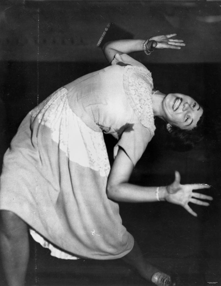 Lee Celledoni dancing the Jitterbug, 1947 Portrait of Lee Celledoni, 'best woman jitterbug', 1947. She wears a dress and bracelets and dances with hands spread in a dramatic gesture.